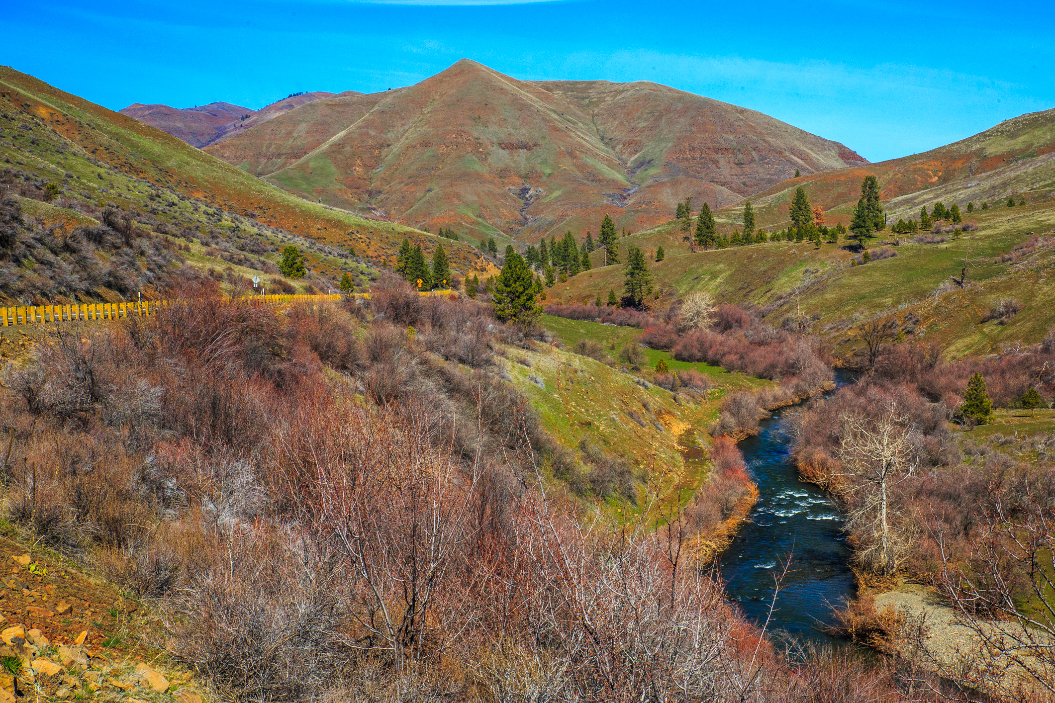 along Hwy 86 near Pine, Oregon...